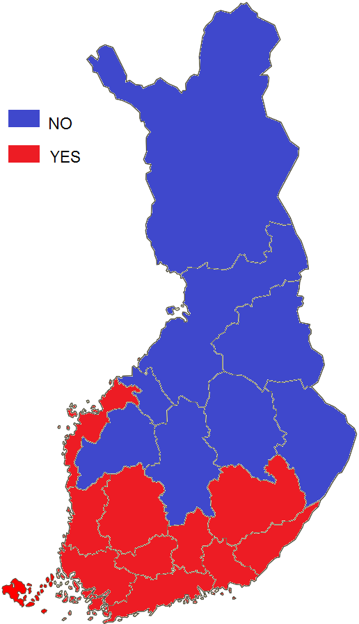 Finnish European Union membership referendum, 1994 result by provinces. Red is YES, Blue is NO